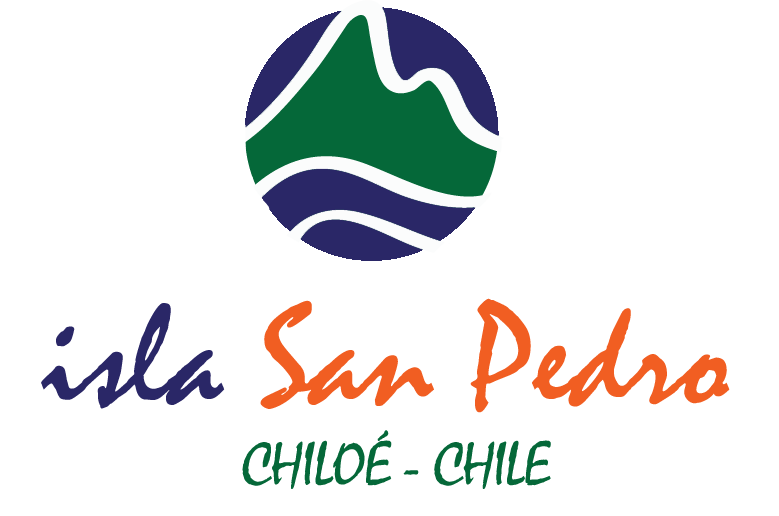 Isla San Pedro